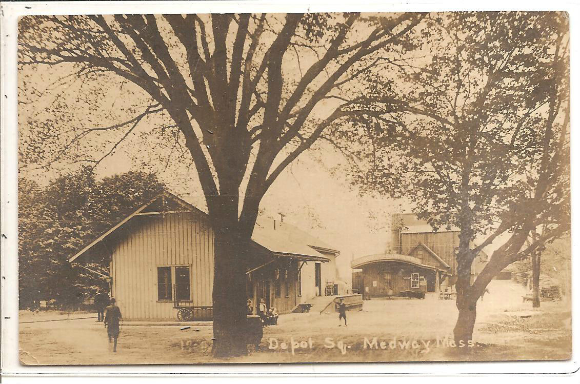 Early divided back postcard of Medway station